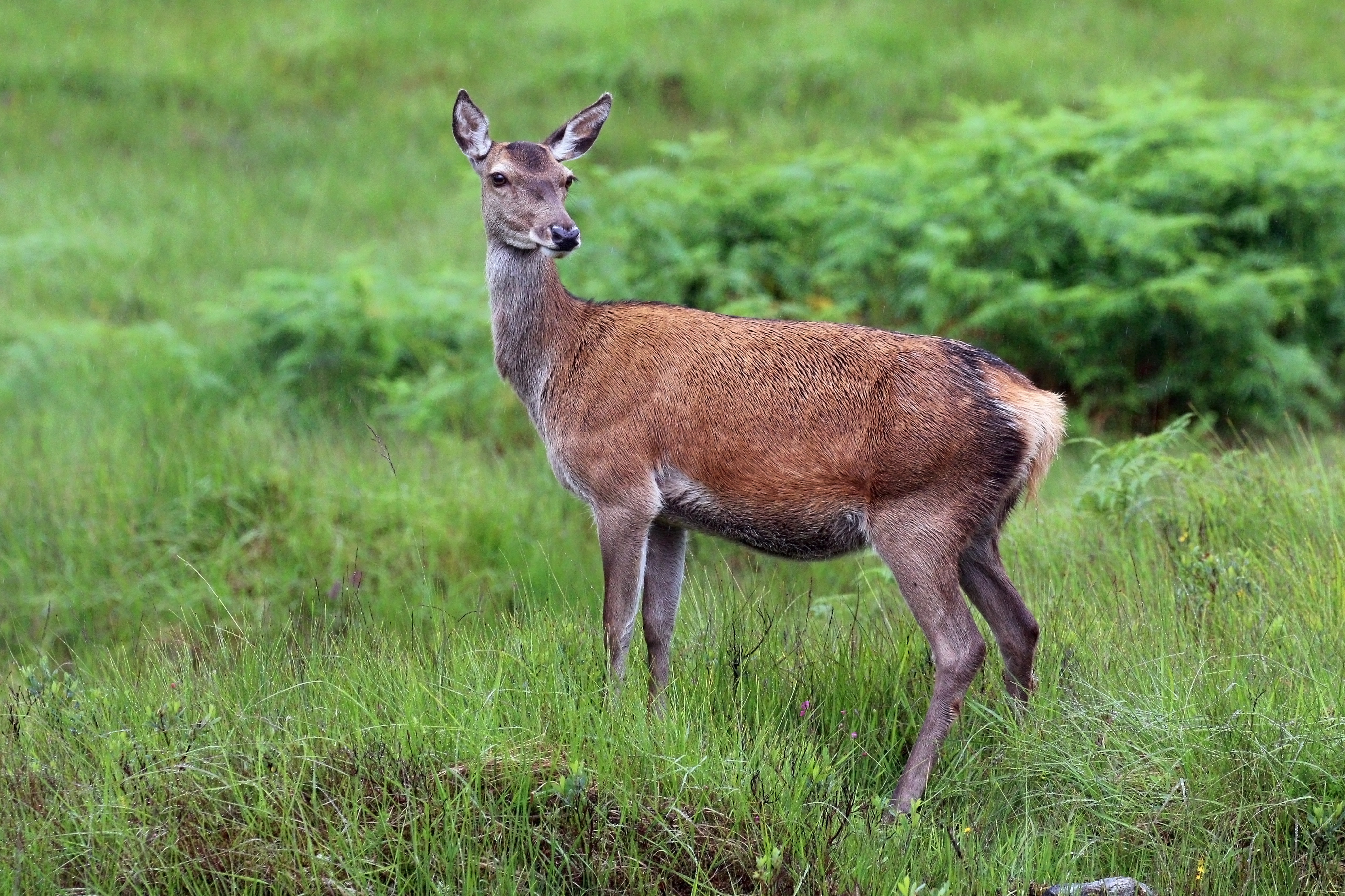 Red deer (Cervus elaphus) hind, Glen Garry, Highland